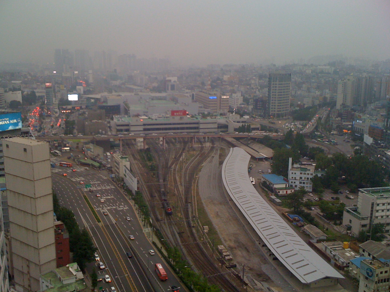 Seoul station from north building